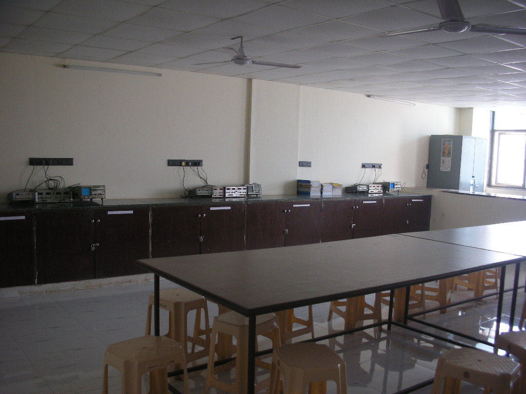 a lab of electronics and telecommunication engineering department at parshvanath college of engineering.